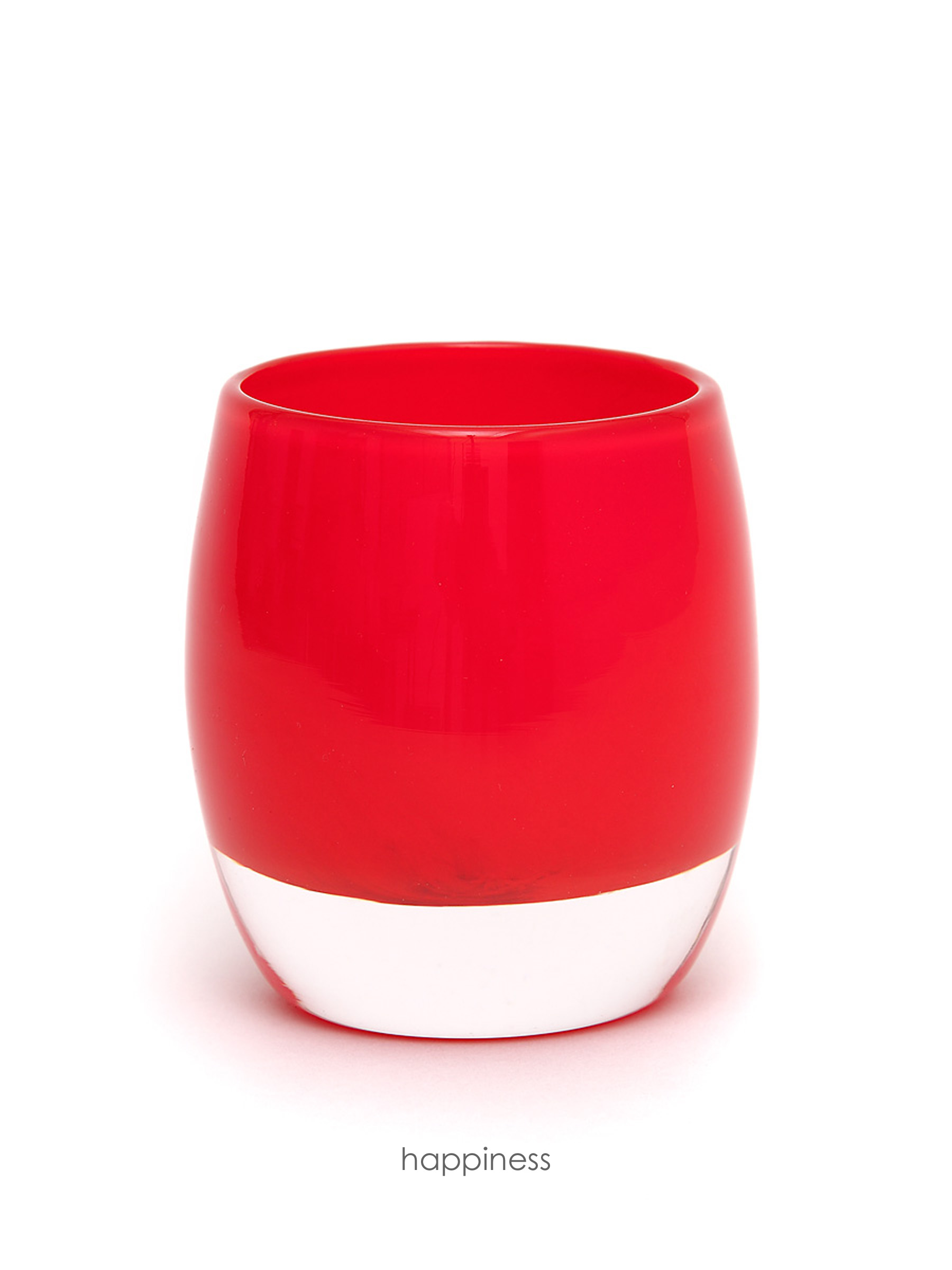 This semi-transparent glassybaby consists of three layers of hand-blown glass. Because of this process, every glassybaby is unique in color and shape.